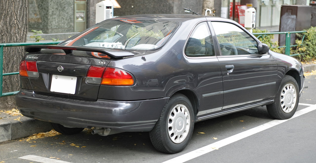 Nissan Lucino ( B14 ), Japan spec.